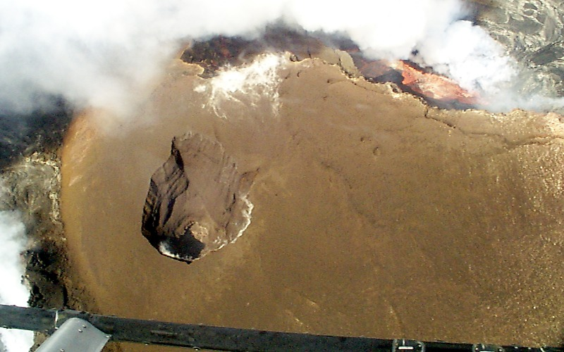 Nearly vertical view into a newly formed collapse pit (Puka Nui) on the south flank of Pu`u `O`o. The pit is 50 m in diameter at the surface and about 50 m deep, tapering to a shaft of uncertain depth.